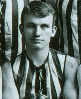 Photograph of Frank Gaudion in 1906.